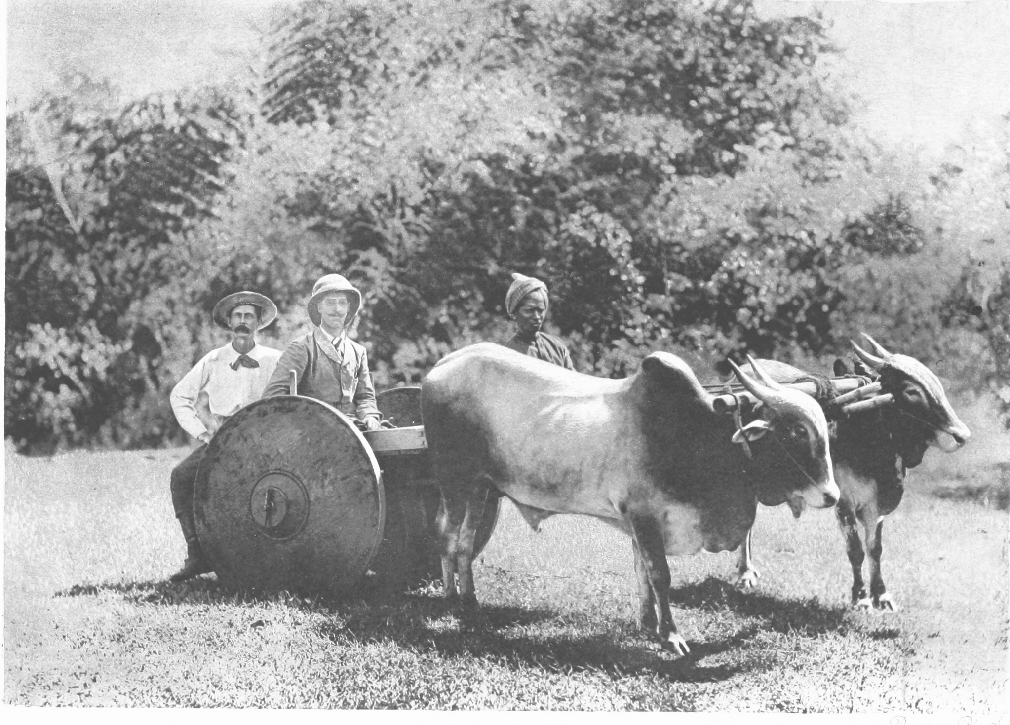 G.P. Sanderson and King Albert Victor on a wagon in the forests of Mysore